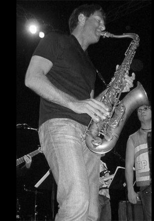 Jazz saxophonist Havard Fossum captured during a live performance at Aalesund, Norway.